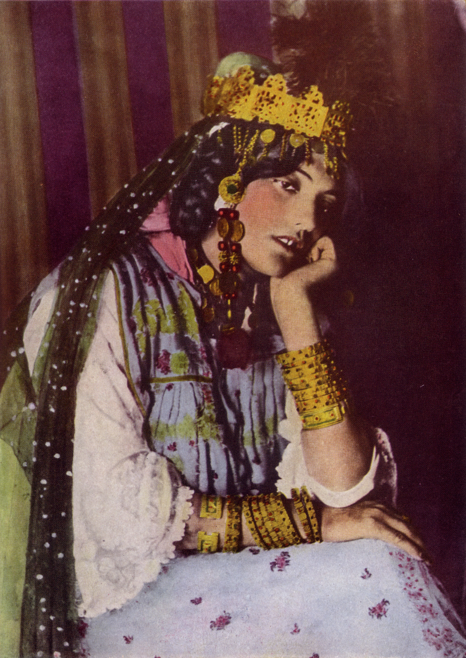 A DESERT FLOWER. "Somewhere in the Sahara" lived this child of the Desert until she came to Biskra, the "Garden of Allah", to earn her dowry as a dancer. One would imagine that she is dreaming of some turbaned knight left behind and counting the days until she may return to her natal tent.